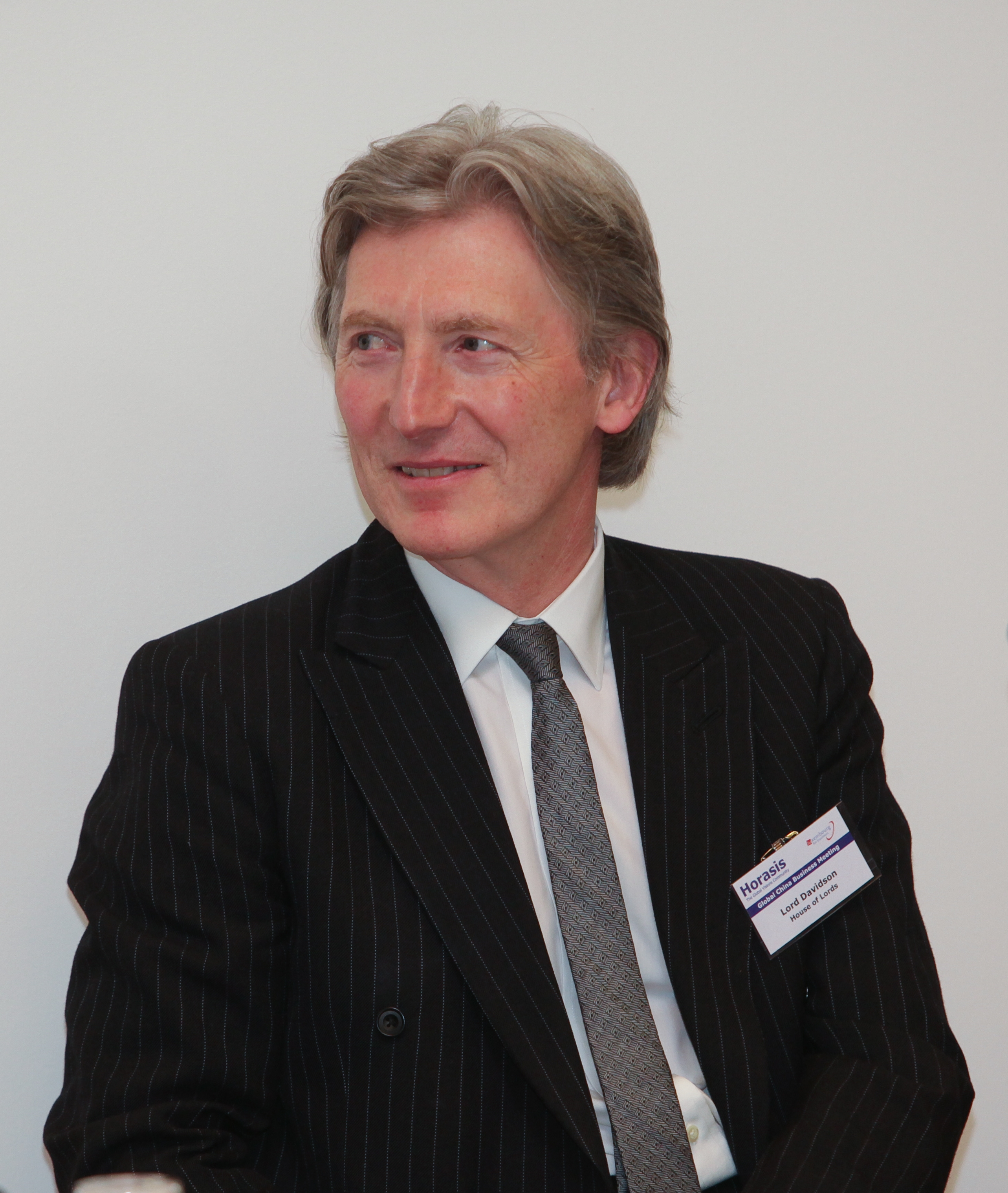 Lord Davidson, Member, House of Lords, United Kingdom